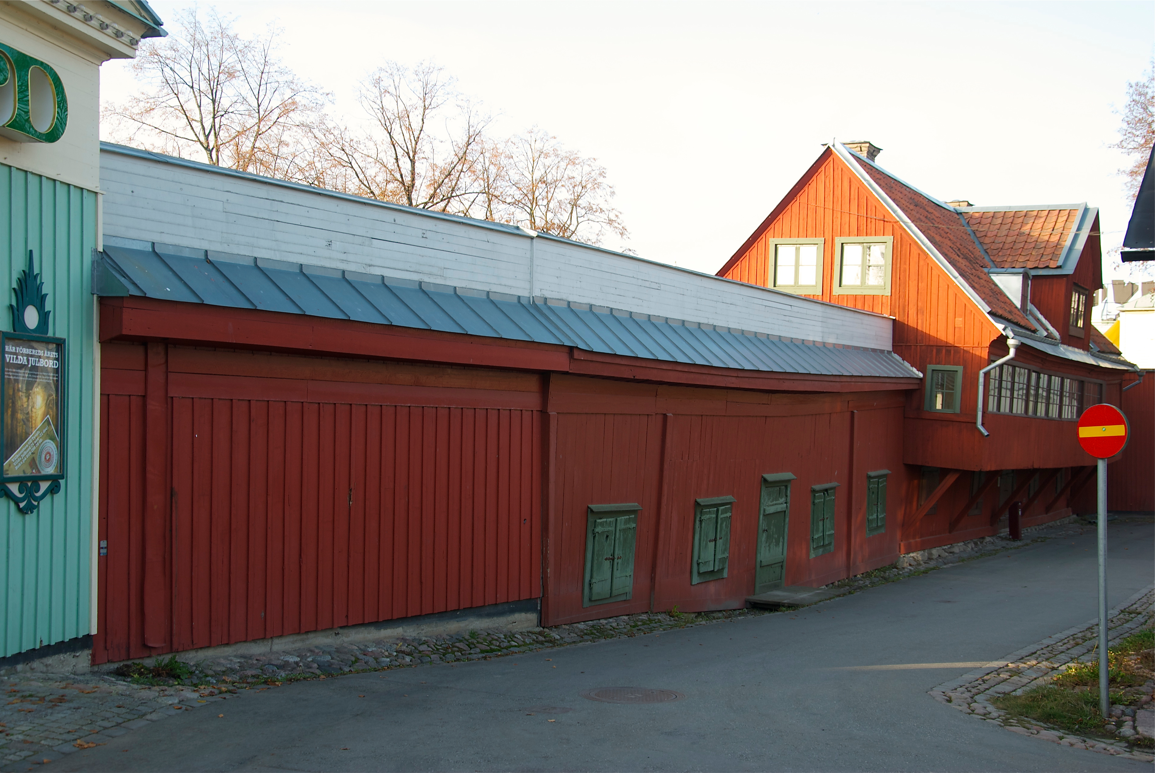 Låga längan november 2011.